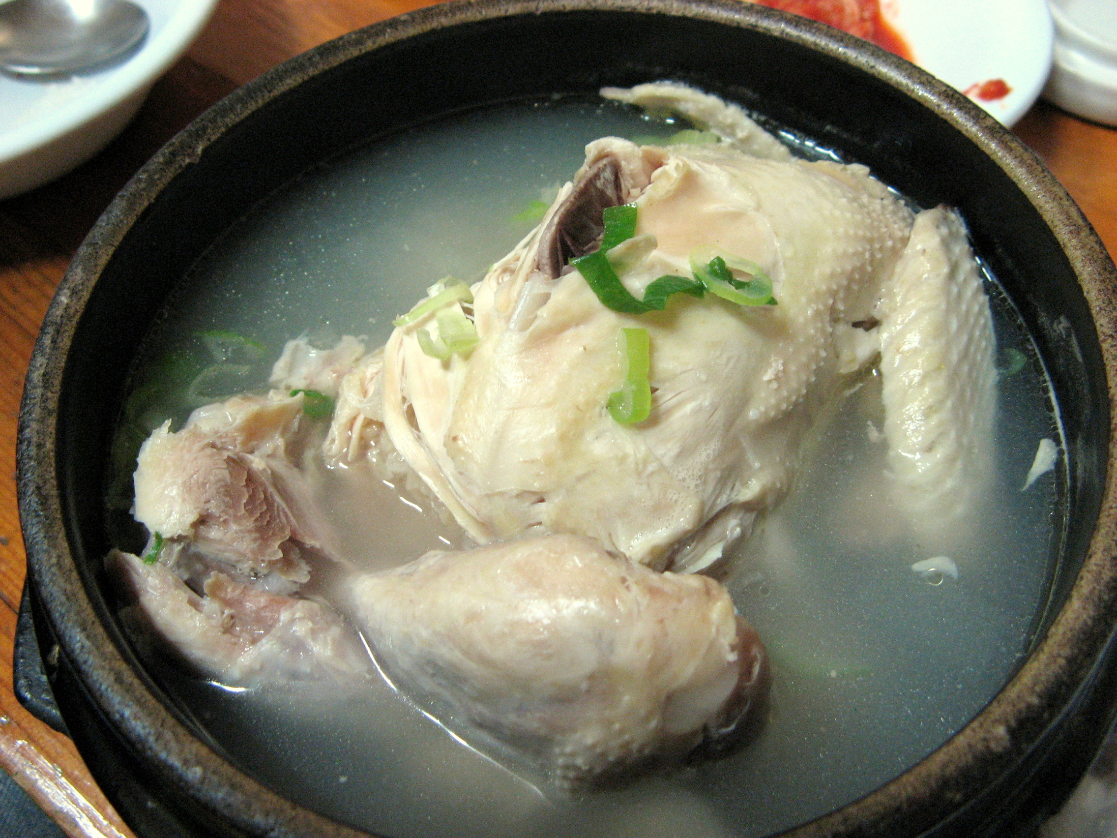 Samgyetang, a Korean chicken soup